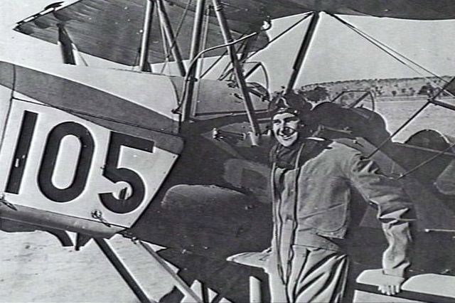 Narrandera, NSW. Standing beside his aircraft is 403564 Leading Aircraftman John Keith Douglas at No. 8 Elementary Flying Training School. He was killed near Munster, Germany, after attacking the Dortmund Ems Canal on 1945-02-08. He was then a wing commander, DFC, AFC.